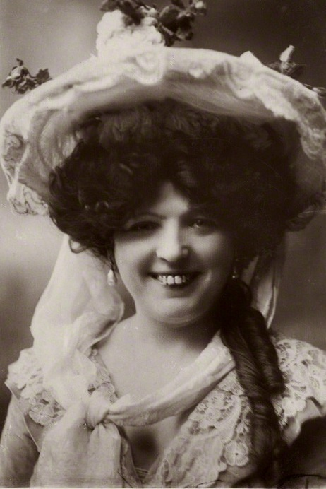 A postcard print of the Victorian music hall performer Marie Lloyd by the London photographer Louis Saul Langfier of Langfier Ltd. Published by the Rotary Photographic Company in c. 1900. Now believed out of copyright.